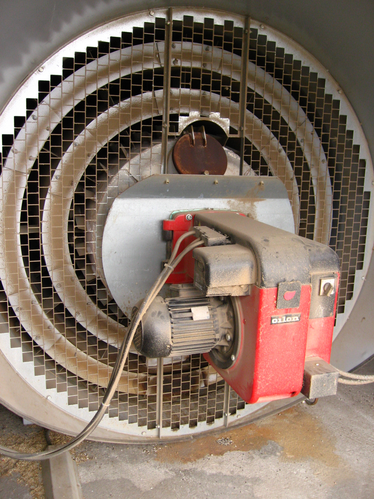 Typical oil burner on a crop dryer's heater